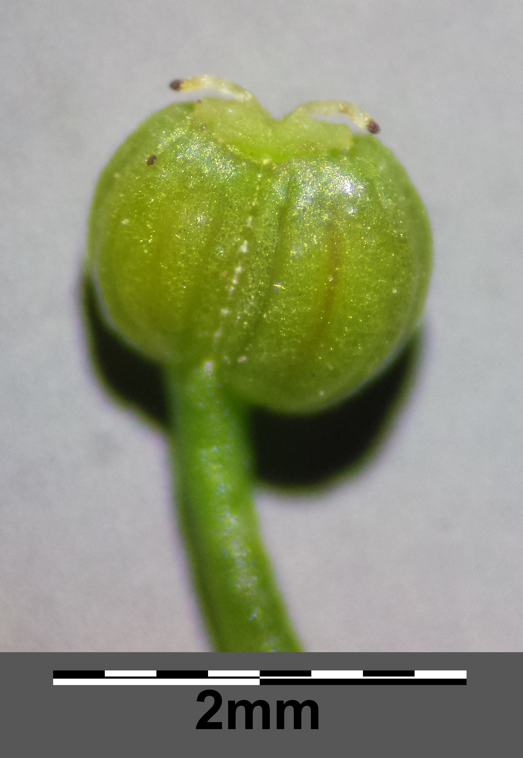 Fruit Taxonym: Helosciadium repens ss Fischer et al. EfÖLS 2008 ISBN 978-3-85474-187-9 Location: Jedleseer Friedhof, Vienna-Floridsdorf - ca. 160 m a.s.l. Habitat: grave